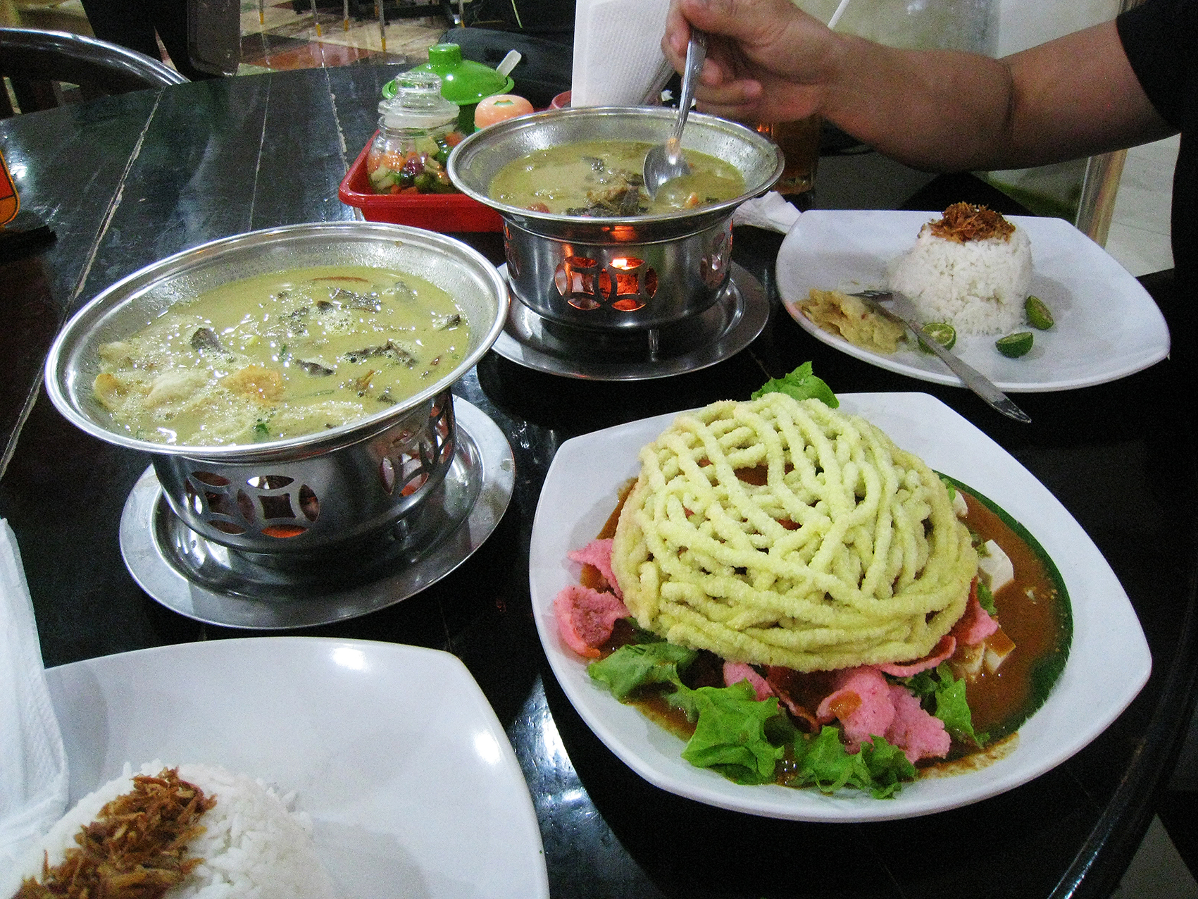 Soto Betawi (beef soup) and Asinan Betawi (vegetables), authentic Betawi (native Jakartans) food served in Sarinah Foodcourt, Central Jakarta, Indonesia.